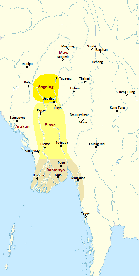 Political map of Myanmar (Burma) c. 1350